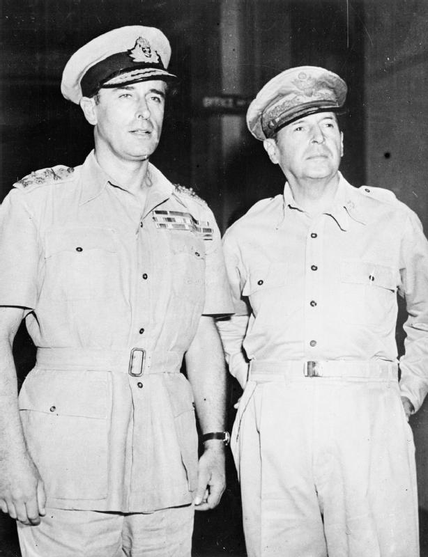 ADMIRAL OF THE FLEET EARL MOUNTBATTEN OF BURMA, Portraits: Admiral Louis Mountbatten with General of the Army Douglas MacArthur.